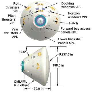 Schematic of Orion CM